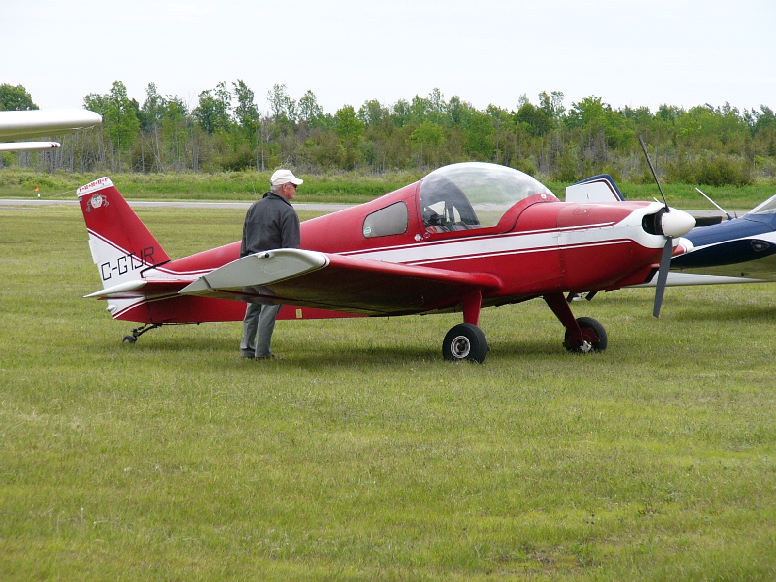 Zenair CH 250 TD at the Smiths Falls, Ontario, Canada fly-in